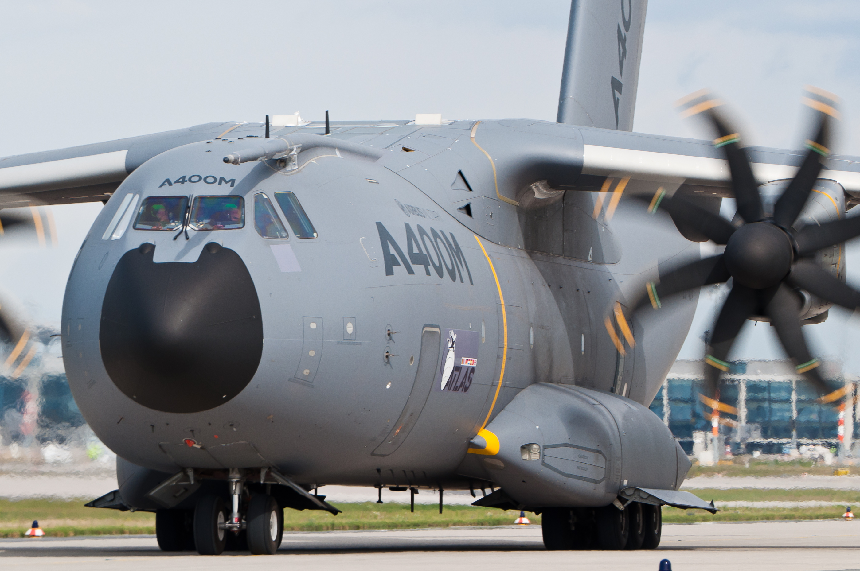 Airbus A400M (EC-404; MSN 004) at ILA Berlin Air Show 2012.